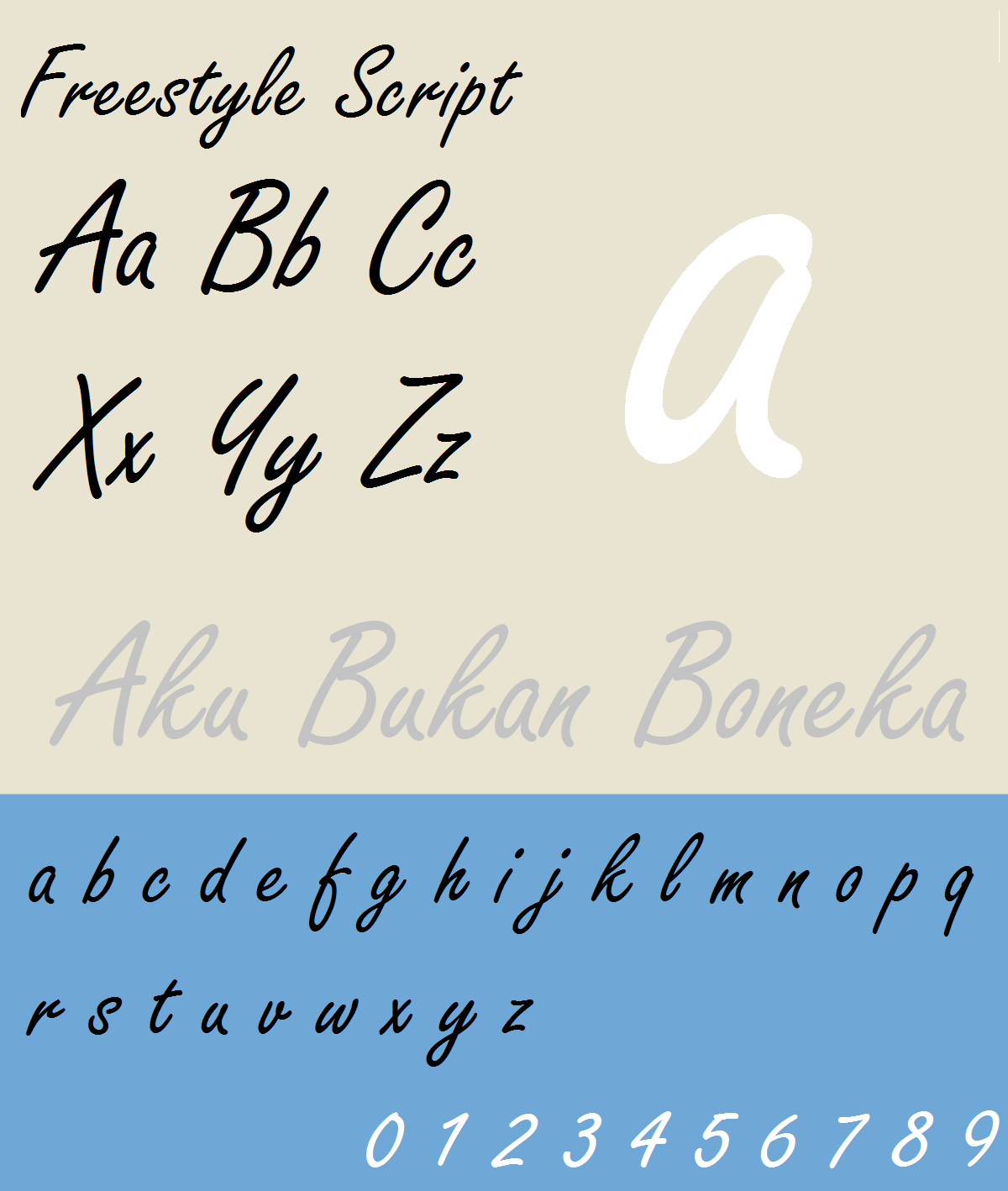 Specimen of Freestyle Script, designed by Martin Wait in 1981